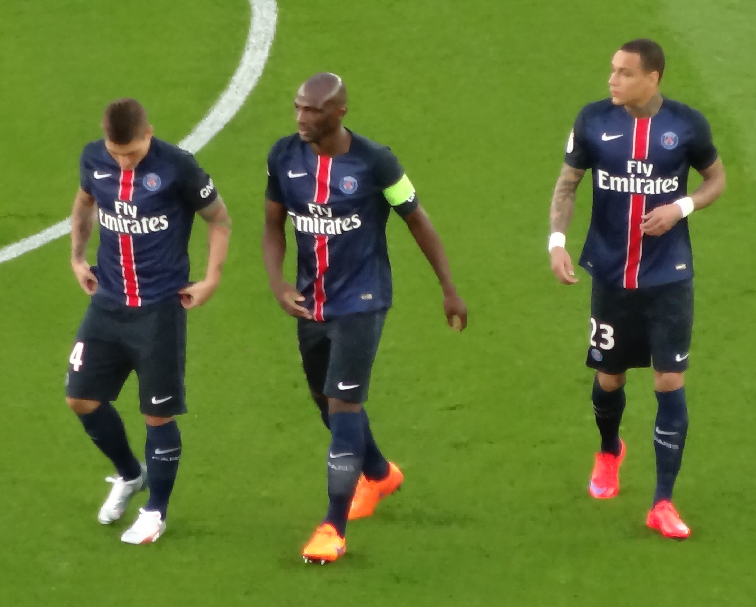 Zoumana Camara, PSG captain